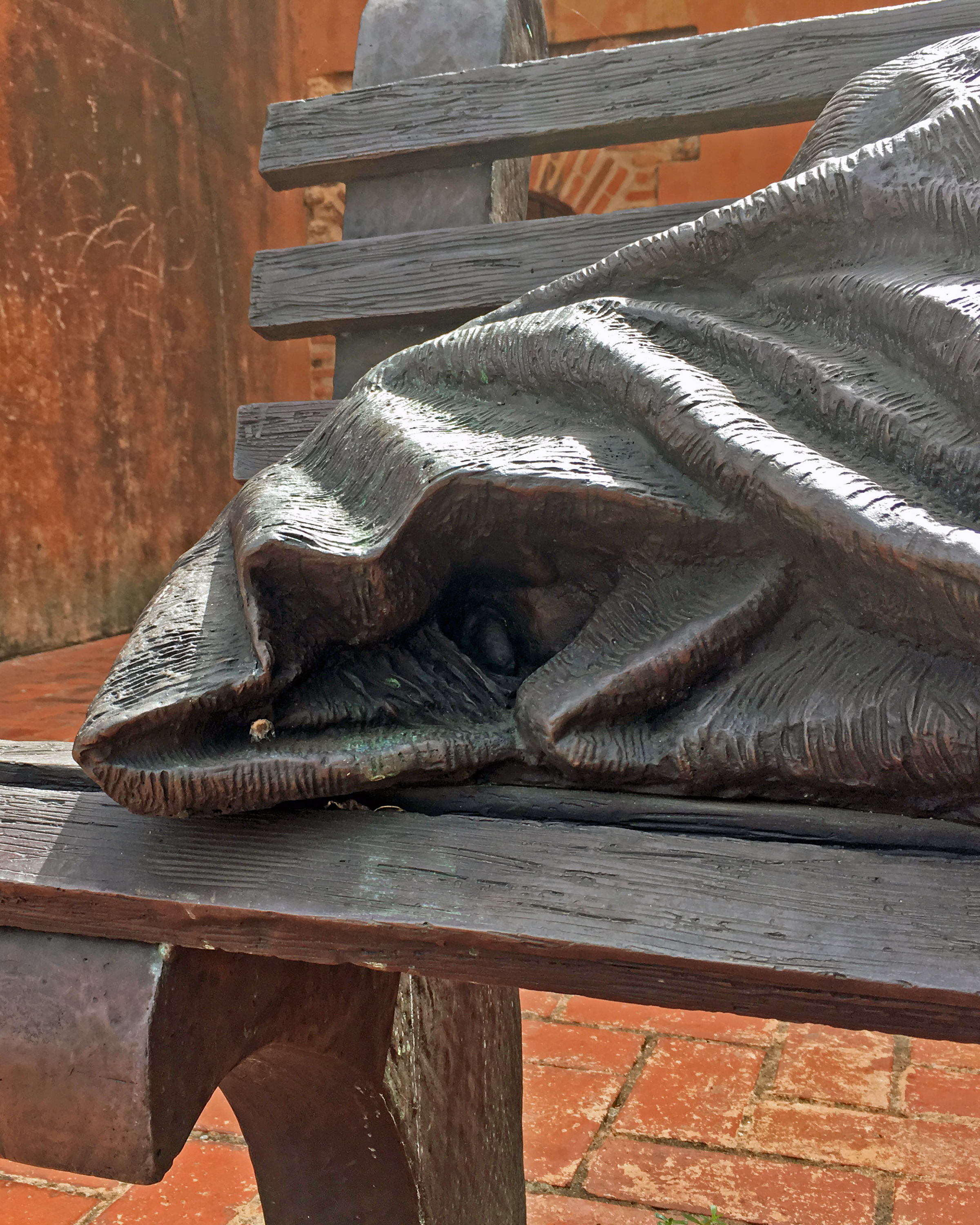 Detail of the face under the hood of the Homeless Jesus sculpture at Dominican Order Church and Convent Ciudad Colonial, Santo Domingo, Dominican Republic.